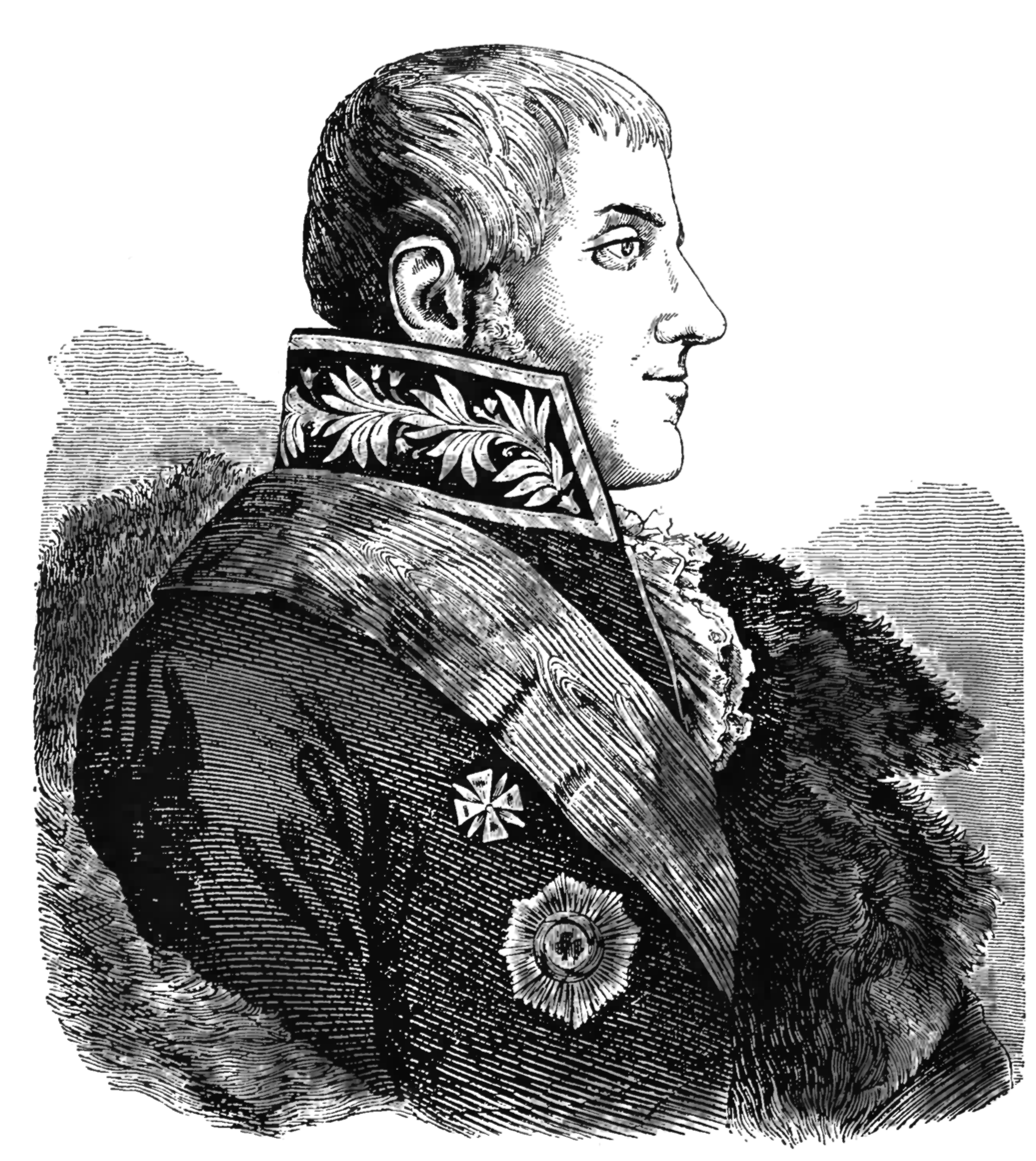 Tadeusz Dembowski